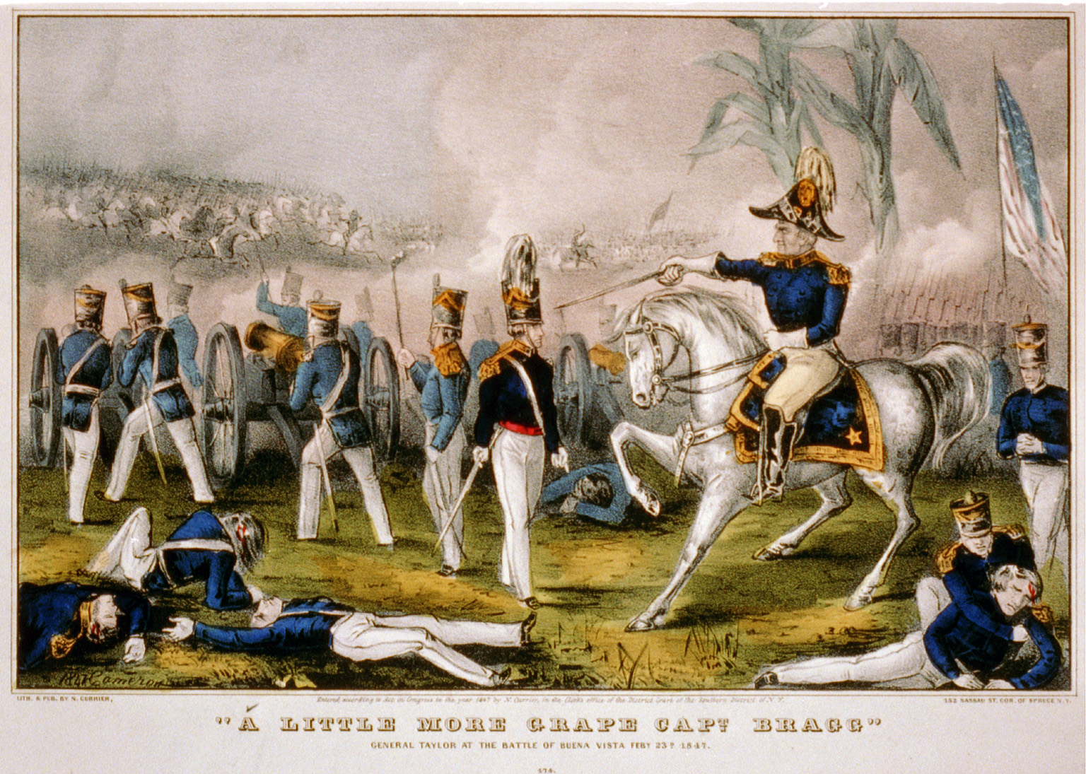 "A Little More Grape, Capt. Bragg". Zachary Taylor at the Battle of Buena Vista, February 23, 1847. Lithograph depiction of the Mexican-American War. 1=# Creator(s): N. Currier (Firm), Date Created/Published: New York : N. Currier, c1847. Medium: 1 print : lithograph, color. Summary: General Taylor on horseback, in midst of battle scene. Reproduction Number: LC-USZC2-2774 (color film copy slide) LC-USZ62-7555 (b&w film copy neg.) LC-USZCN4-64 (color film copy neg.) Rights Advisory: No known restrictions on publication. Call Number: PGA - Currier & Ives--Little More Grape Capt. Bragg ... (A size) [P&P] Repository: Library of Congress Prints and Photographs Division Washington, D.C. 20540 USA